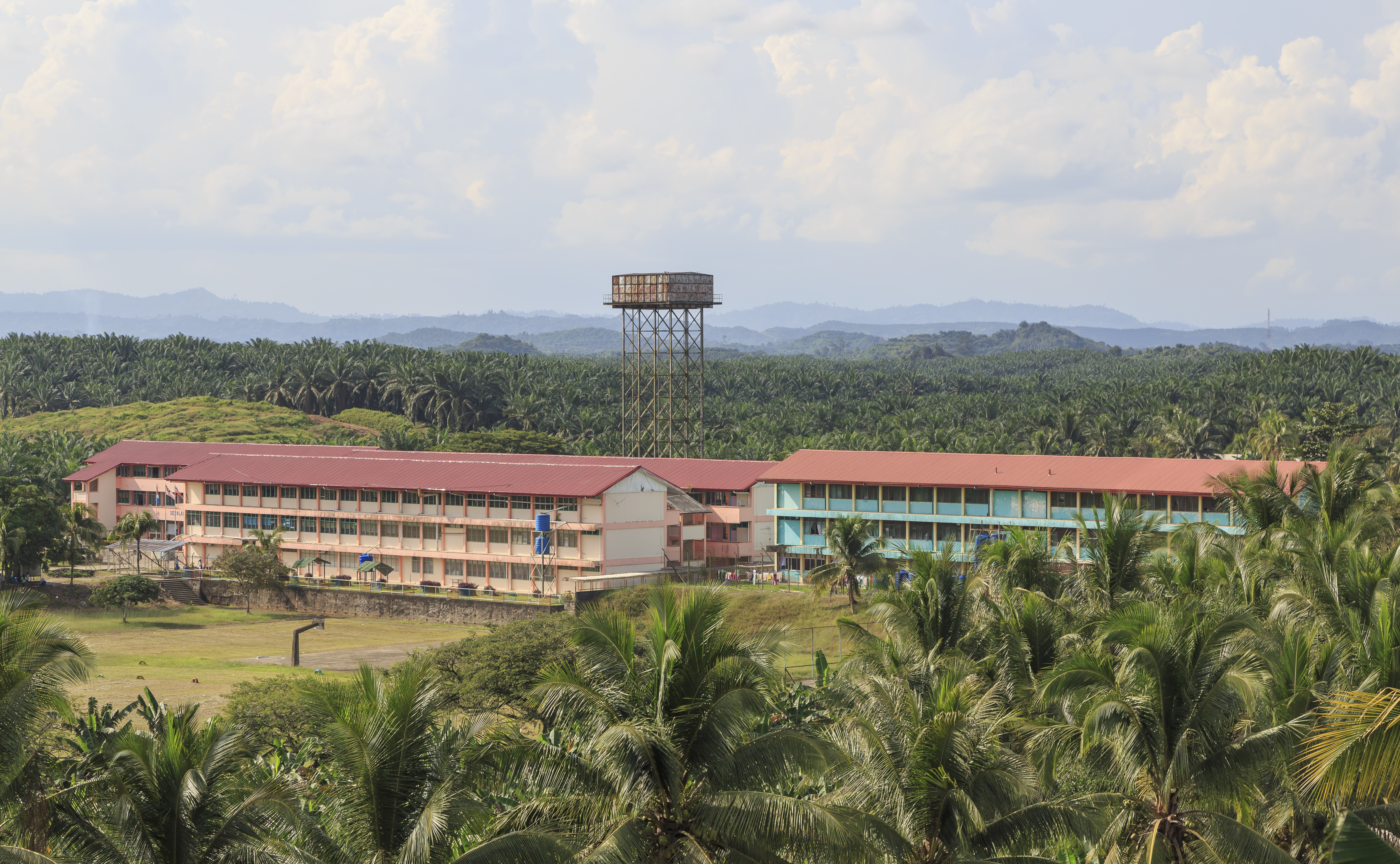 Kota Pamol, Sabah: SMK Pamol, the secondary school on the compound of PAMOL Estate